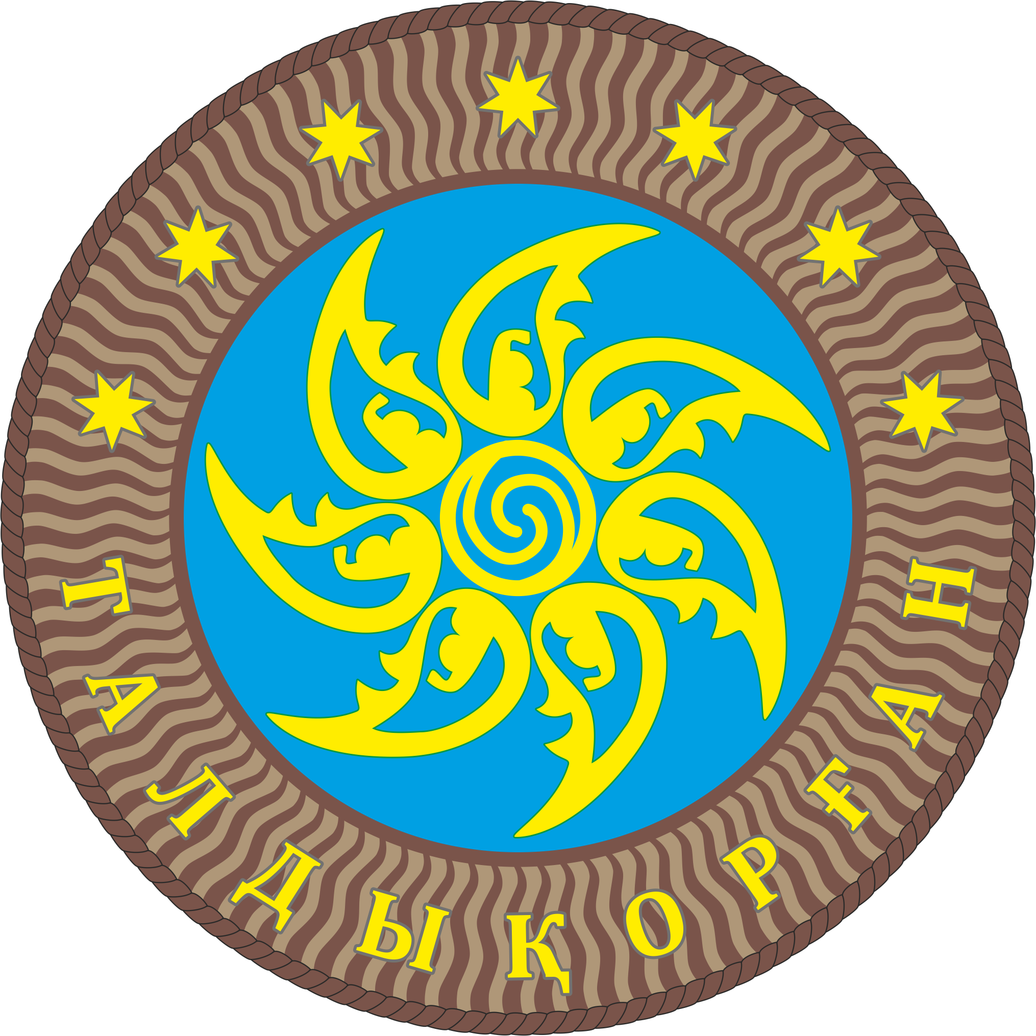 Taldykorgan Coat of Arms